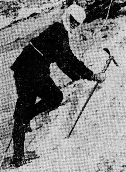 A photo of Constance Barnicoot climbing the Schreckhorn in the Bernese Alps